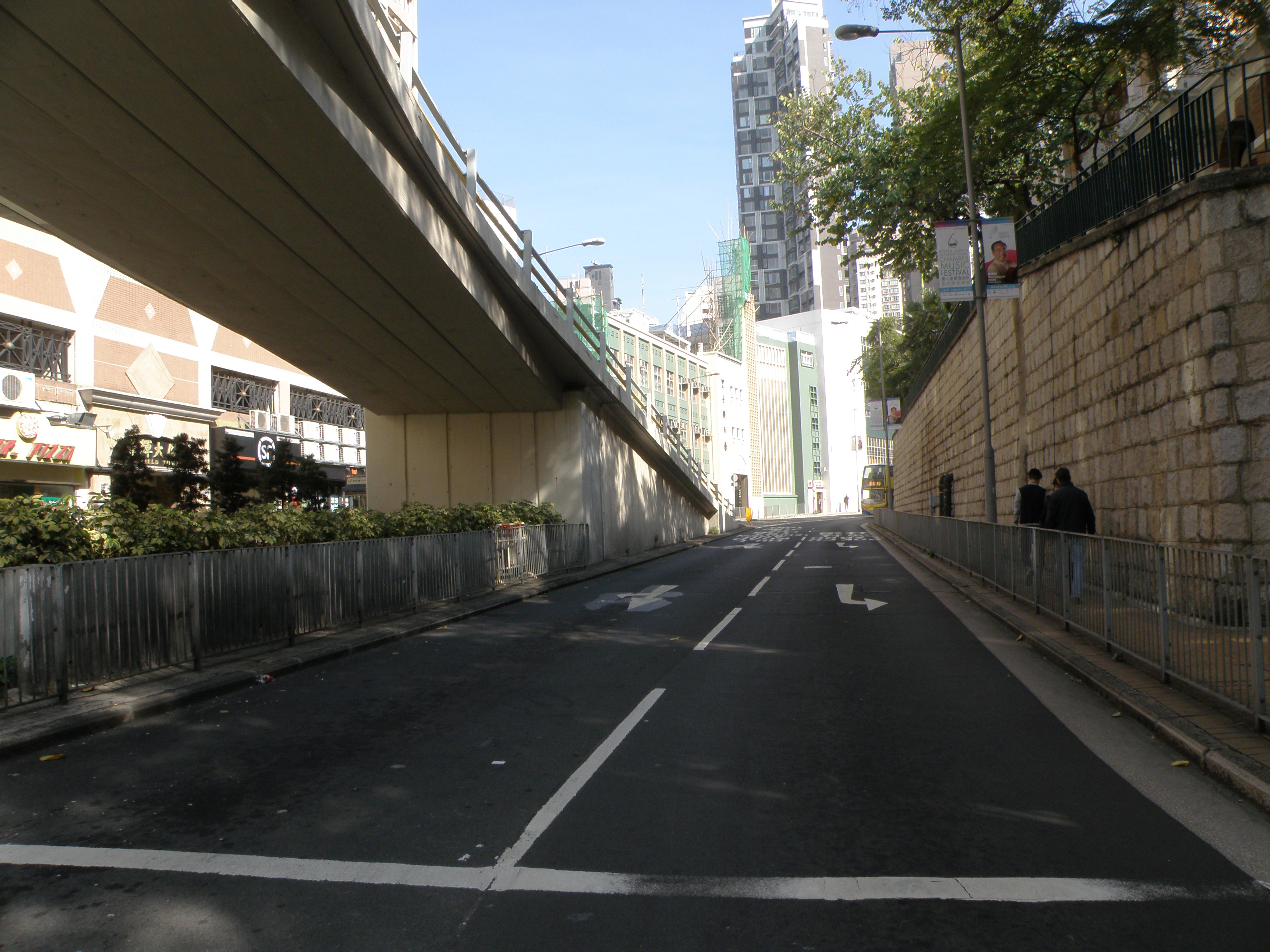 Bonham Road in Shek Tong Tsui, Hong Kong.